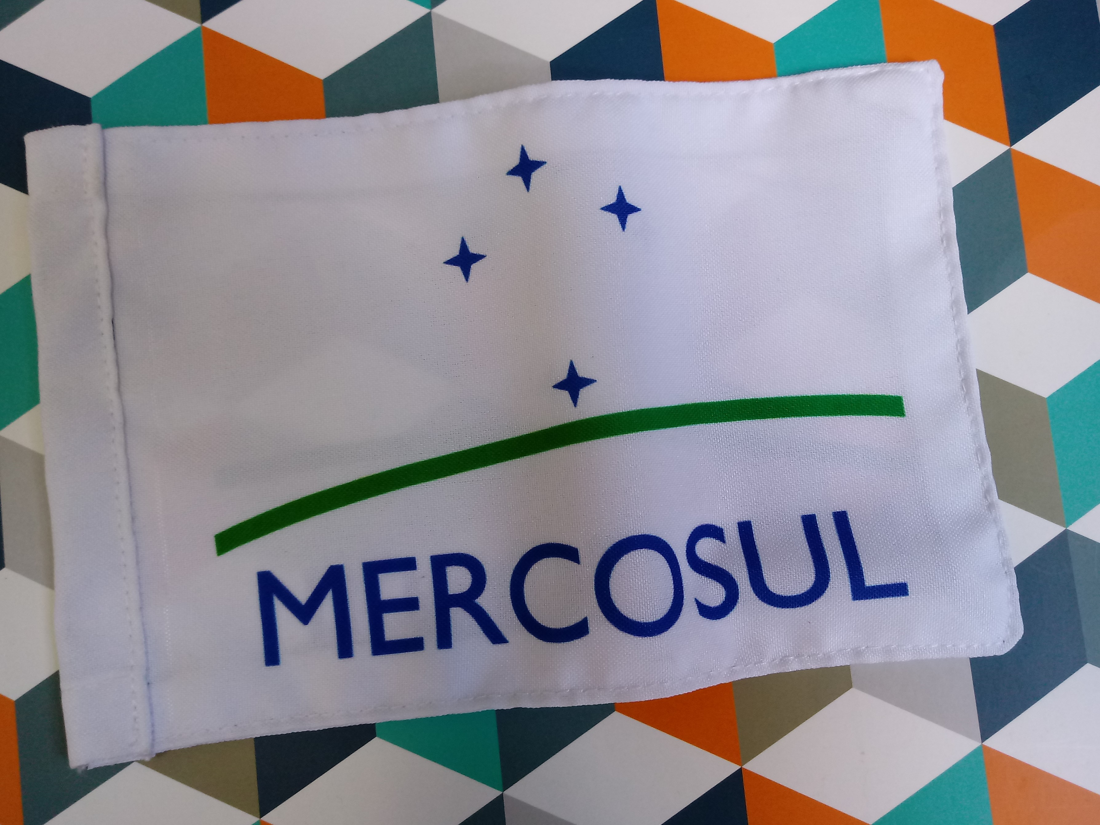 Flag of Mercosur in portuguese.